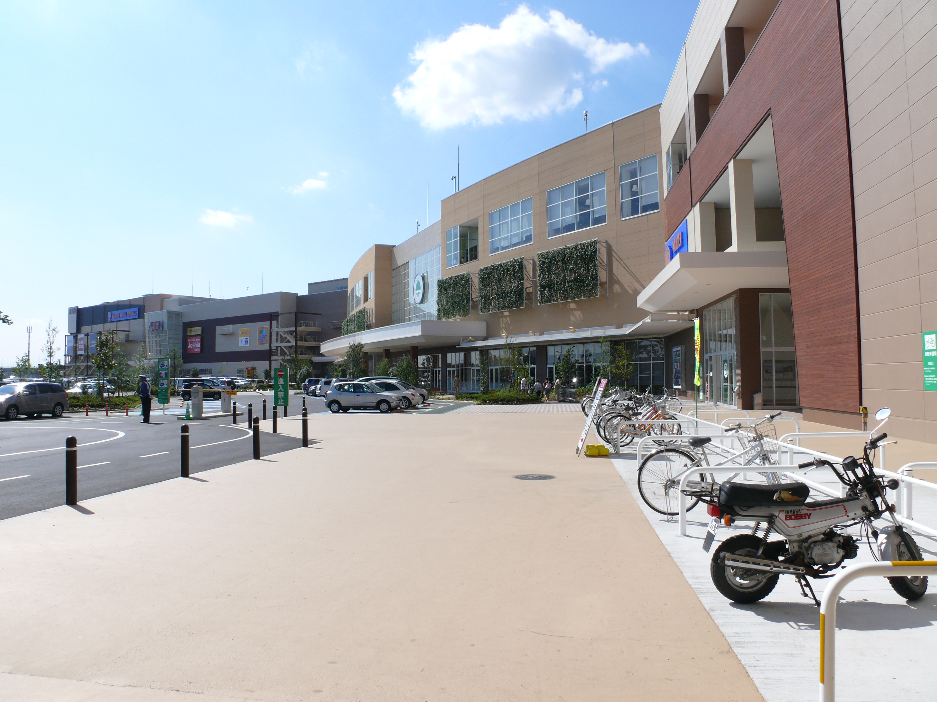 AEON Kakamigahara Shopping Center.